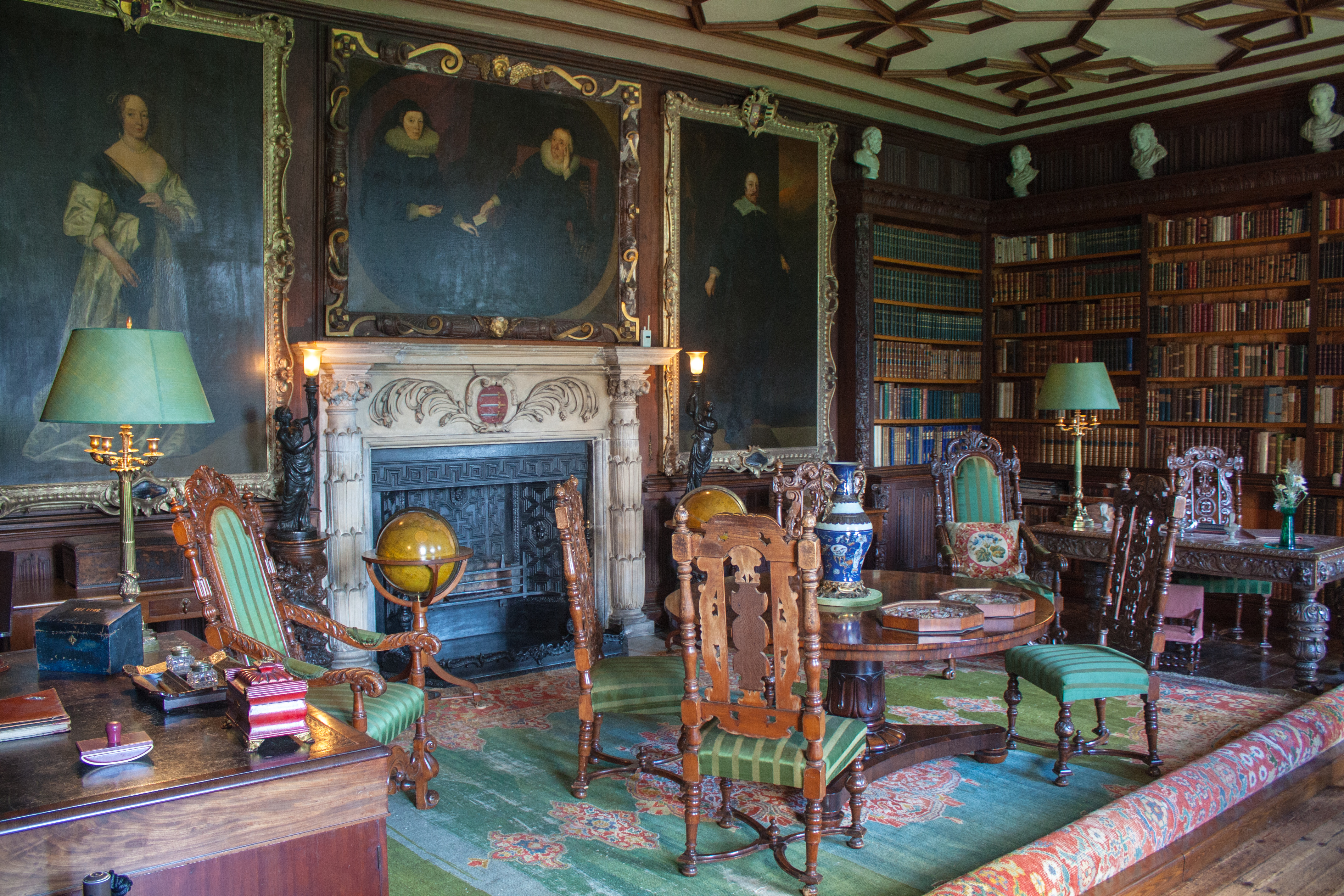 The Vyne House